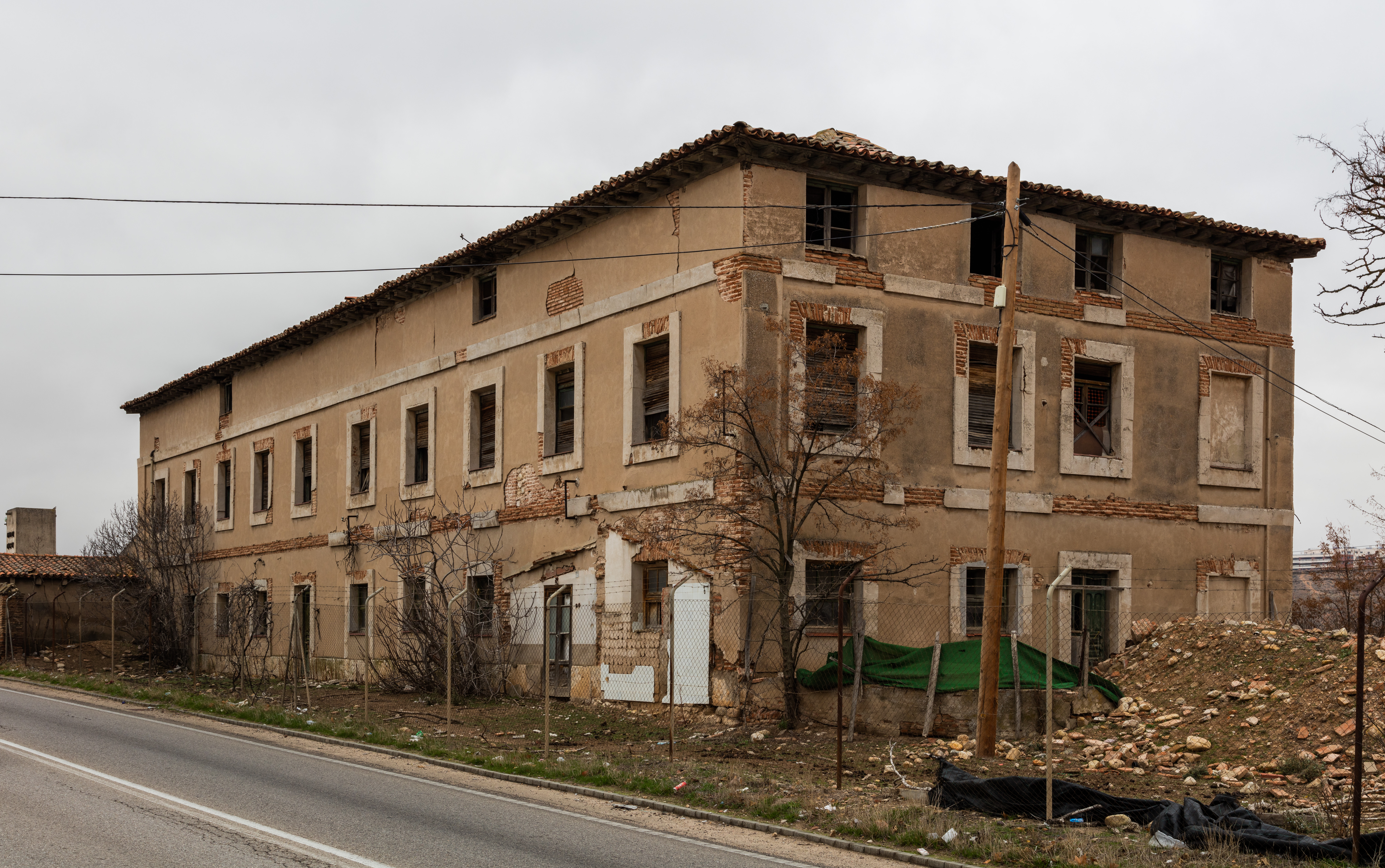 Laboratory of the englishmen, Guadalajara, Spain